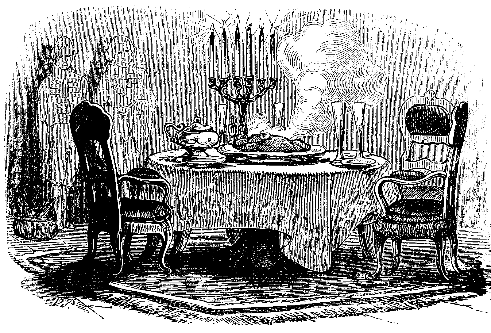 table